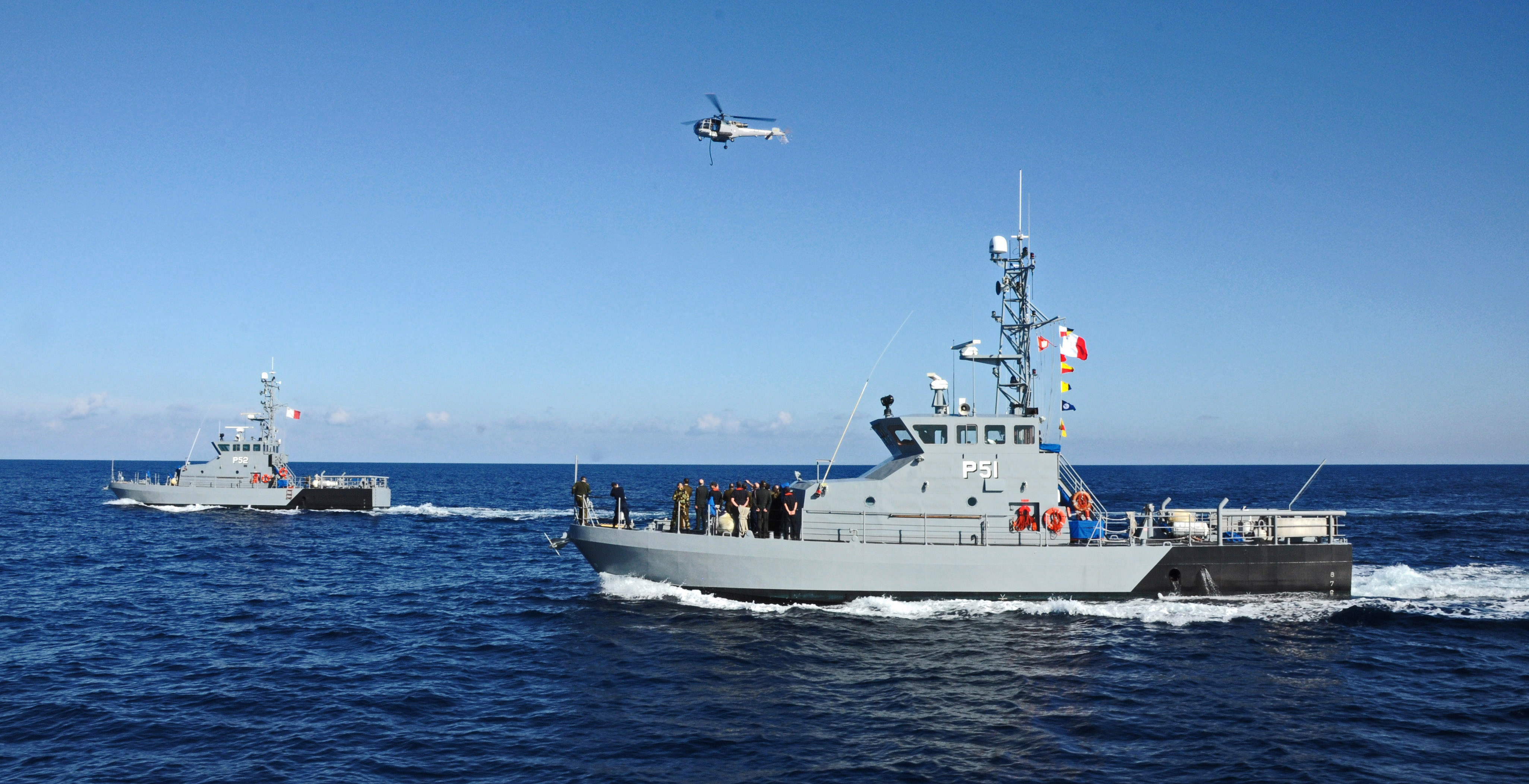 VALLETTA, Malta (Dec. 5, 2011) The Armed Forces of Malta counter piracy vessel protection detachment demonstrates aerial boarding procedures during Eurasia Partnership Capstone (EPC) 2011. Participants for EPC 2011 include approximately 100 representatives from Azerbaijan, Bulgaria, Georgia, Greece, Malta, Romania, Ukraine and the United States, who will focus on strengthening maritime relationships between Eurasian nations. Training workshops will range from maritime law enforcement, search and rescue, marine environmental protection and advanced network-enabled maritime interdiction operations (MIO). (U.S. Navy photo by Mass Communication Specialist 3rd Class Caitlin Conroy/Released)